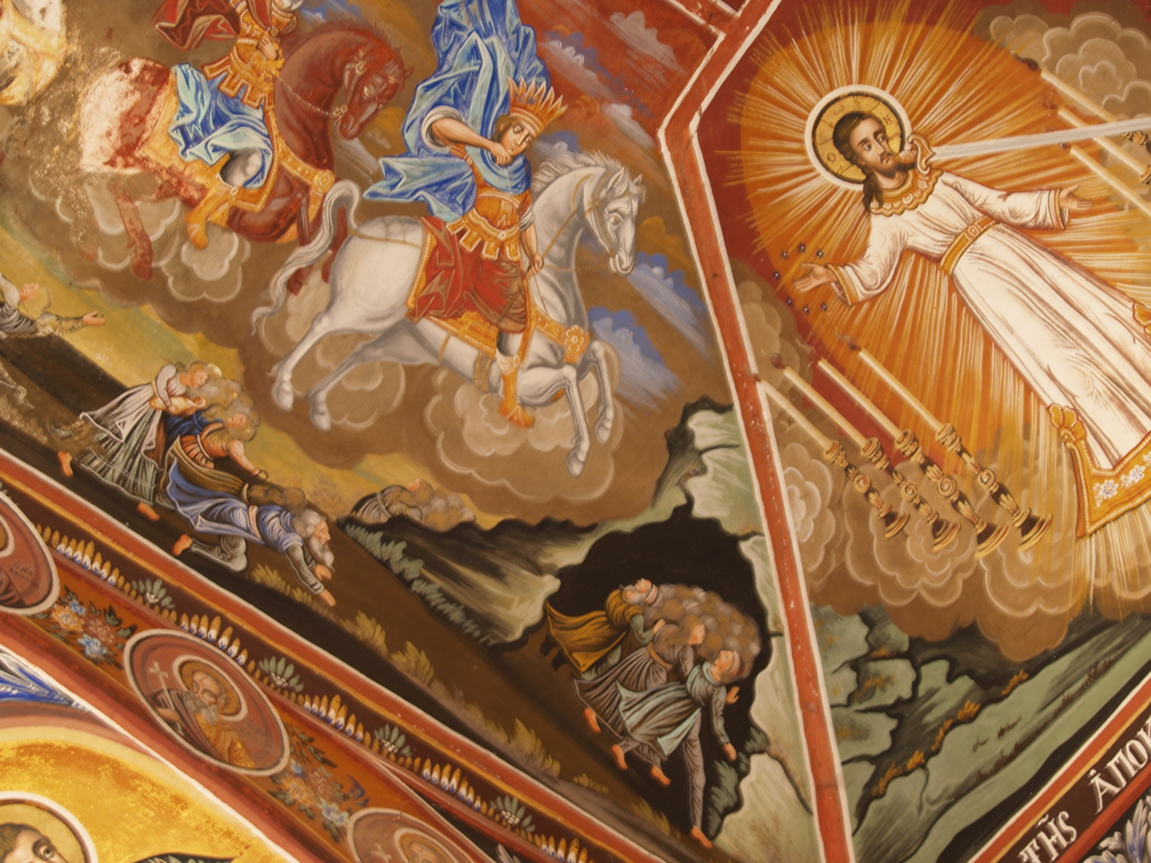 Great Lavra